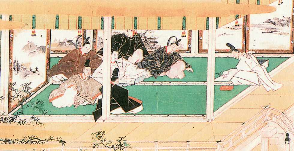 Onmyōji (陰陽師) from the "Tamamonomae" (『たまものまへ』, Japanese picture)